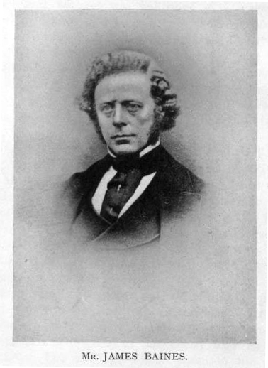 James Baines, shipbuilder